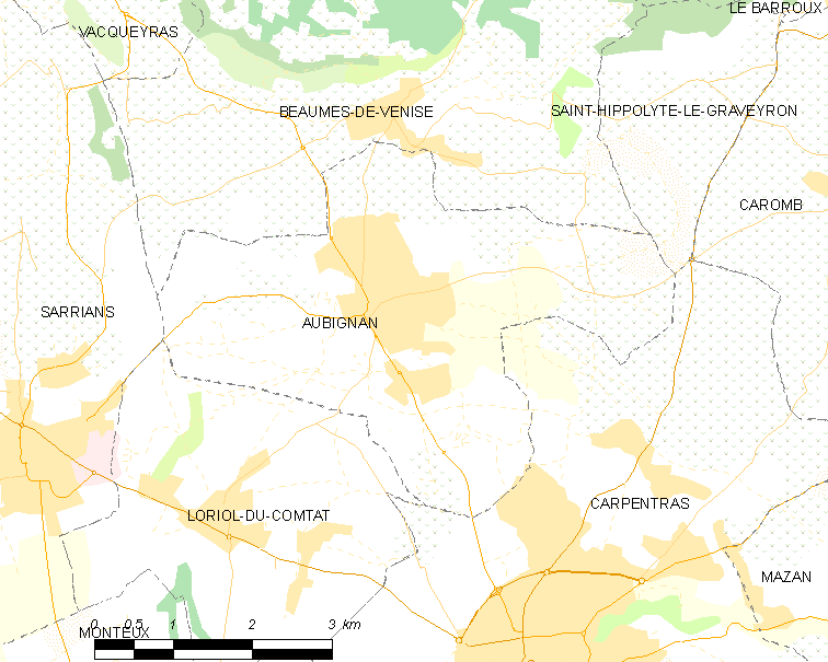 Map of French municipality Aubignan